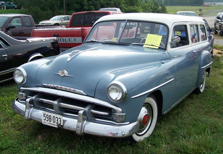 1952 Plymouth Concord Suburban